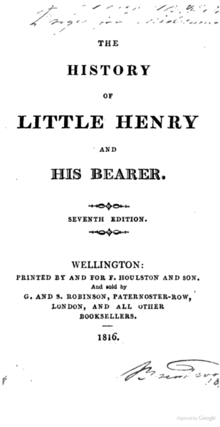 Title page from Mary Martha Sherwood, Little Henry and his Bearer, Wellington: F. Houlston, 1816.